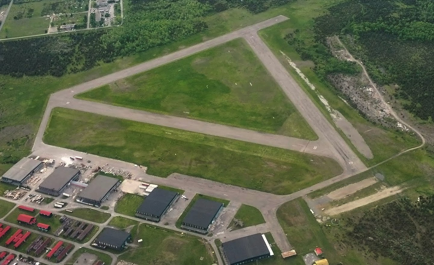 Aerial picture @ 3,000 ft asl of Picton Airport CNT7 on 2013-05-28 Photo by Jason Leblanc taken in Cessna 172S C-GKSK Rockcliffe Flying Club